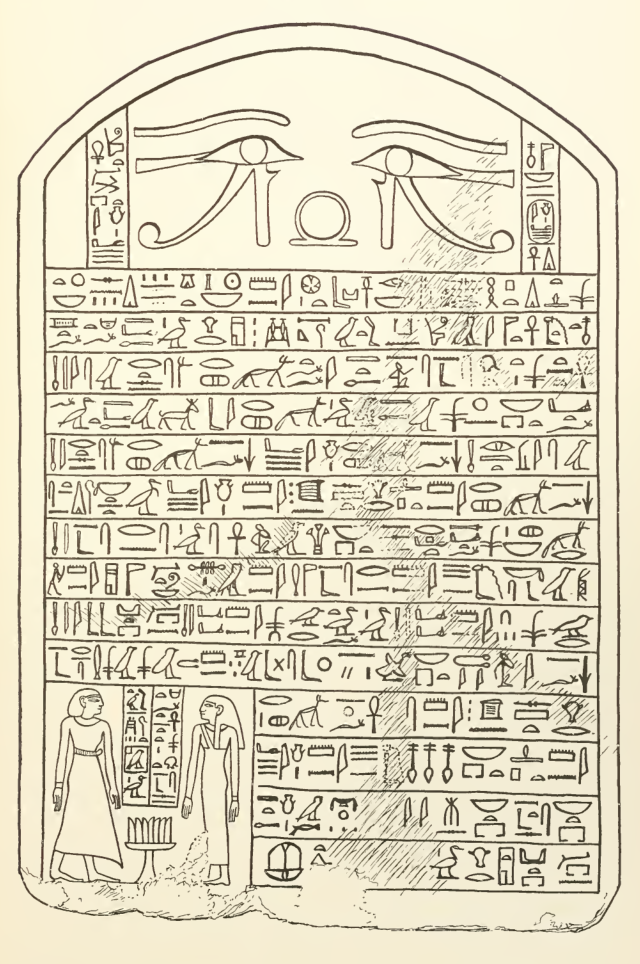 Drawing of a limestone stele commemorating an officer, Sahathor, and his wife, parents and other relatives. Reign of Wahibre Ibiau (the cartouche of this pharaoh is on the top-right), 13th dynasty. British Museum 279 (registr. no. 1348).